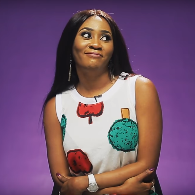 Here's a Side Of Toni Tones You Have Never Seen Before on The NdaniTGIF Show